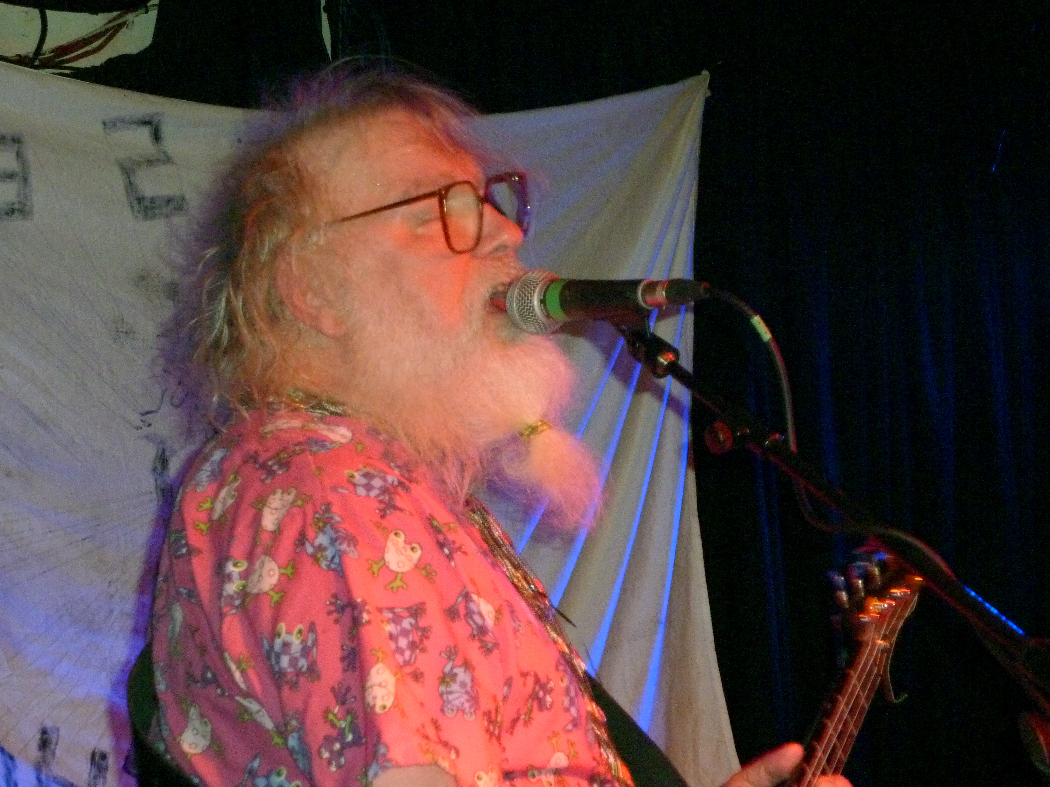 Playing at The Lexington, London.